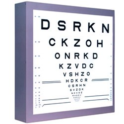 This is a visual acuity chart in Log units